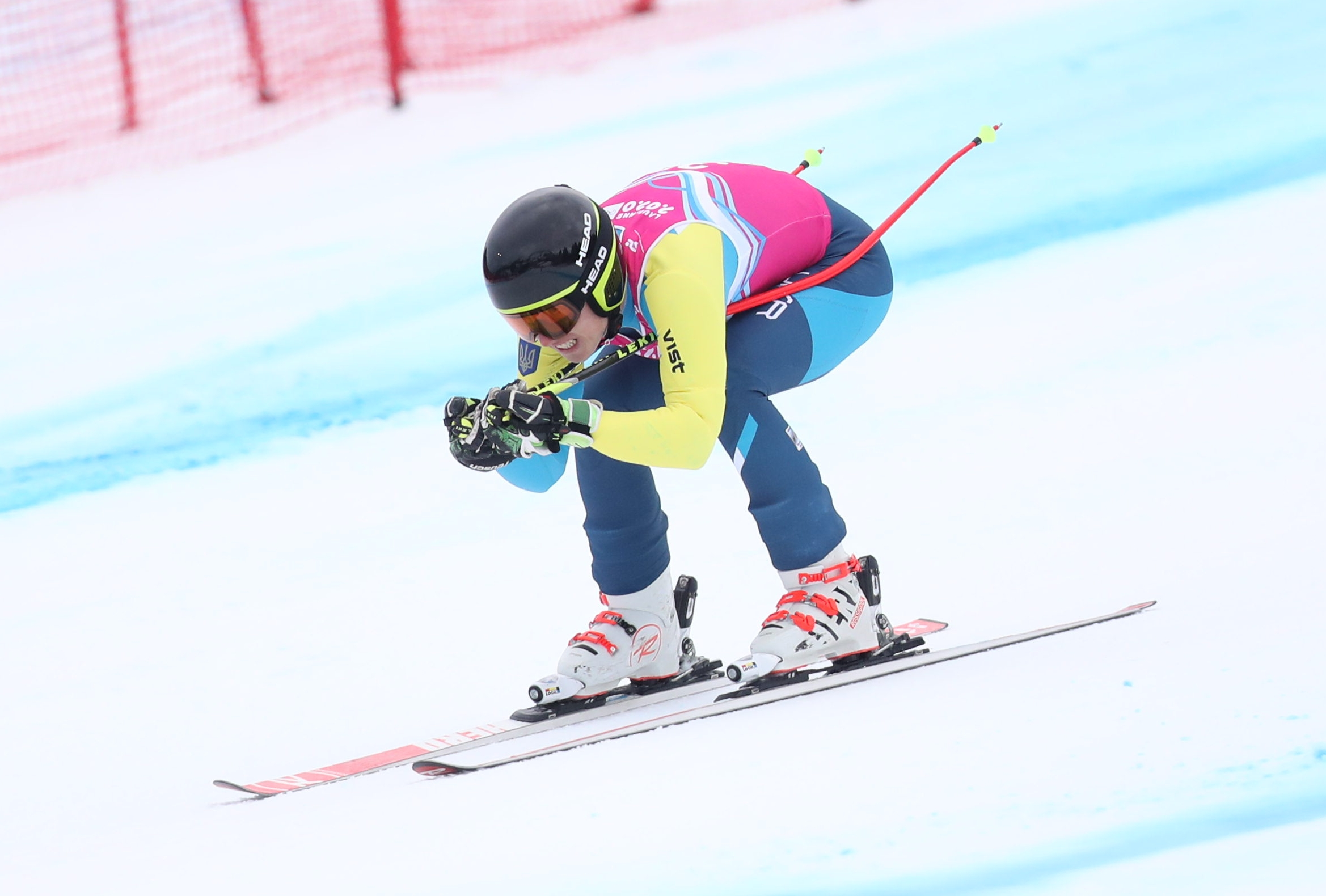 Men's Super G at the 2020 Winter Youth Olympics in Lausanne